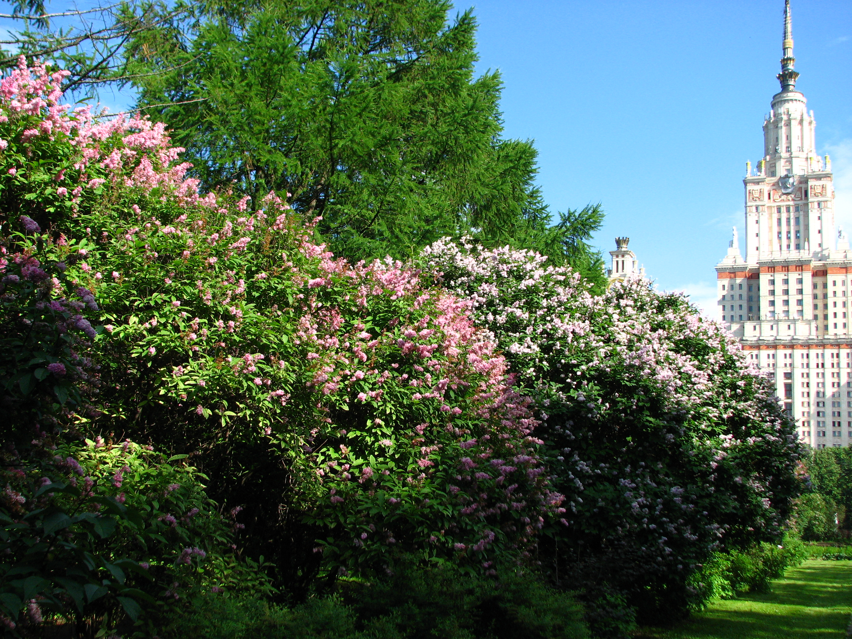 Botanical Garden of Moscow State University. The collection of cultivars of hungarian lilac (syringa josikaea).